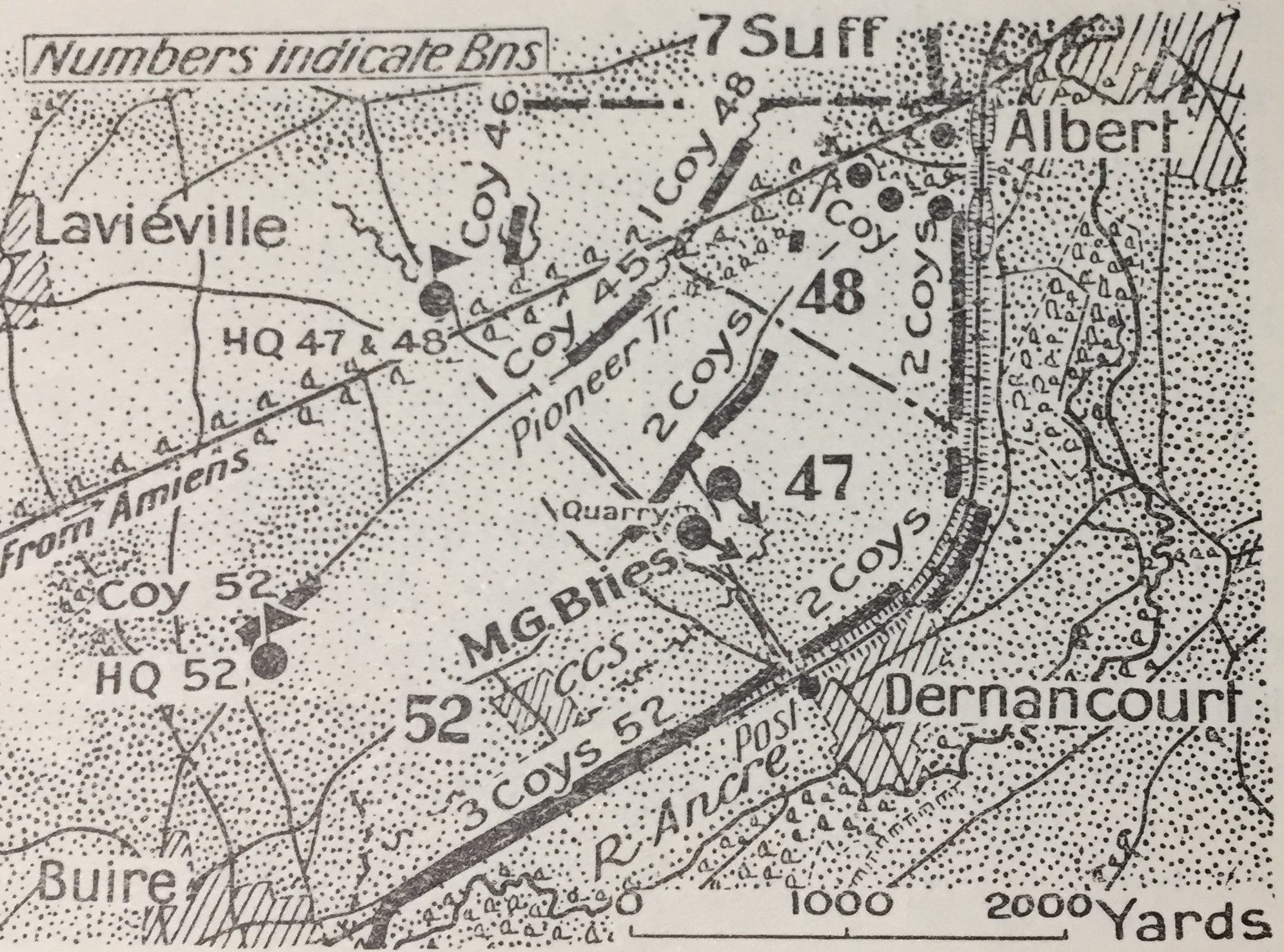 Map of the initial Allied frontline dispositions of the Second Battle of Dernancourt 1918